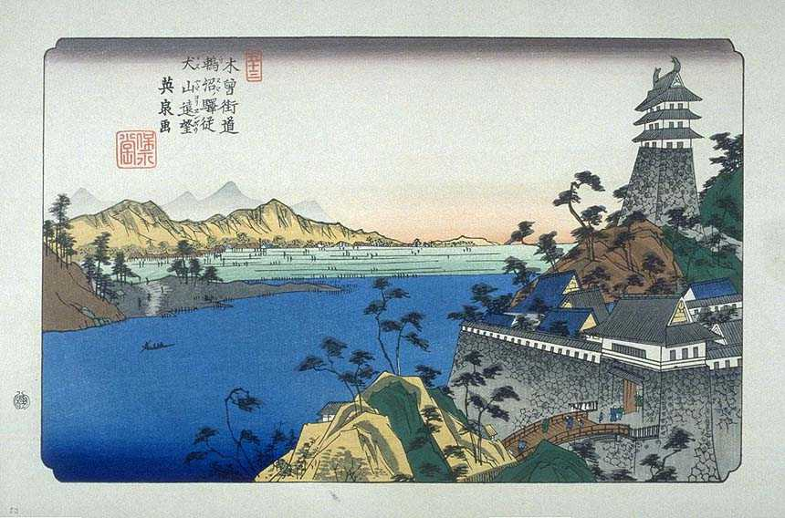 Unuma on the Kisokaido, ukiyo-e prints by Keisai Eisen